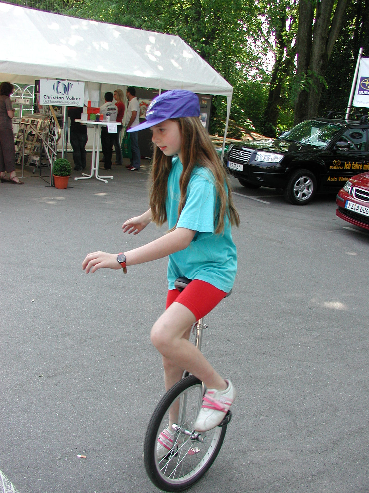 Girl on unicycle